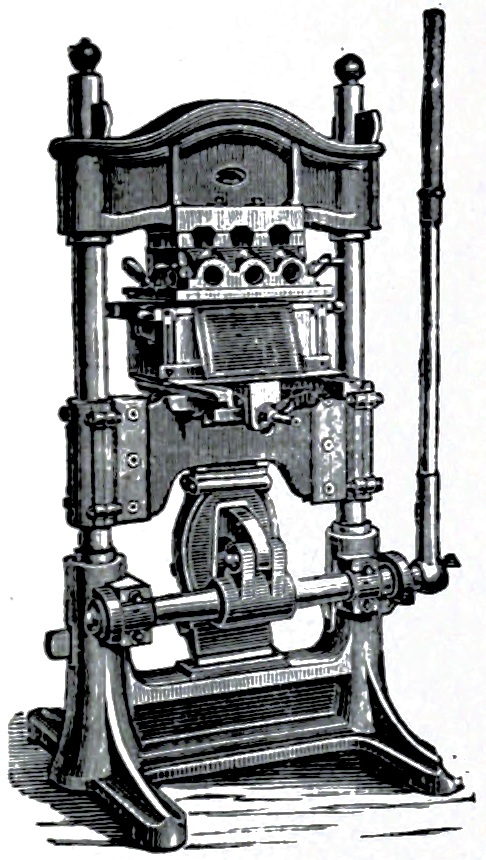 Illustration of a Blocking Machine from The Art of Bookbinding by Joseph William Zaehnsdorf.